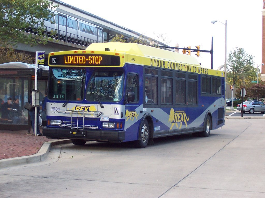 WMATA Orion 7 2684 in REX Livery taken at King Street station